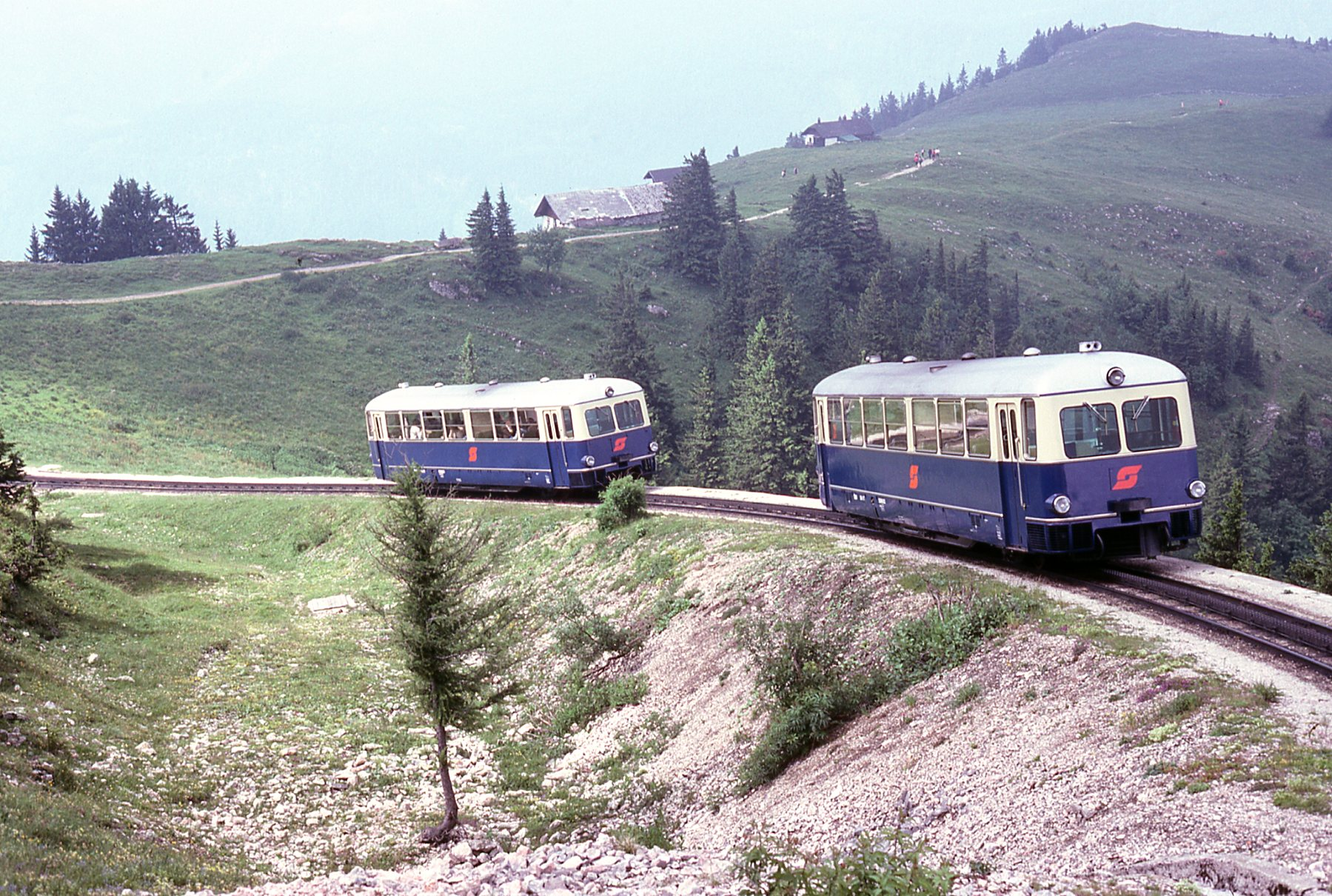 Both class 5099 railcars above Schafbergalpe station.